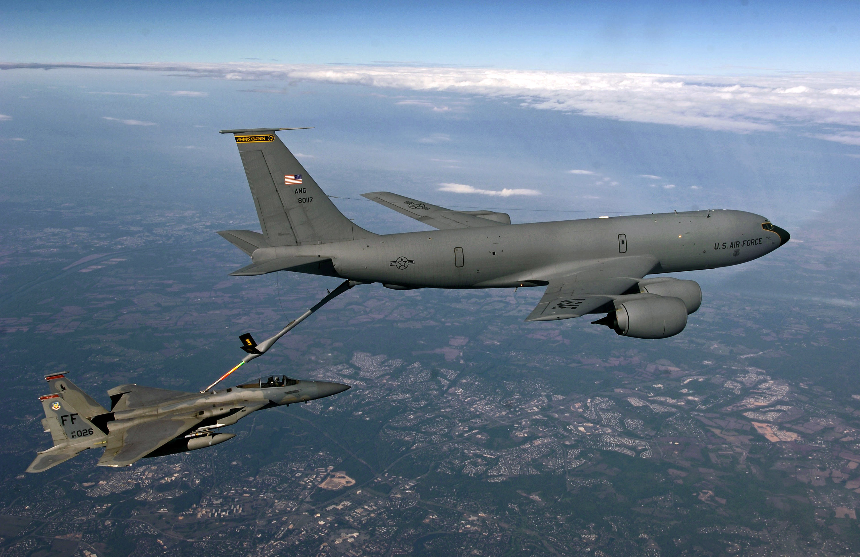 During a combat air patrol mission, a U.S. Air Force McDonnell Douglas F-15C-35-MC Eagle (s/n 83-0026) piloted by Capt. Matt Buckner receives fuel from a Boeing KC-135T Stratotanker (s/n 58-0117) assigned to the Pennsylvania Air National Guard's 171st Air Refueling Wing over Washington D.C (USA) on 7 October 2007. The mission was in support of Operation Noble Eagle. Capt. Buckner is assigned to the 71st Fighter Squadron at Langley Air Force Base, Va. (U.S. Air Force photo/Staff Sgt. Samuel Rogers)